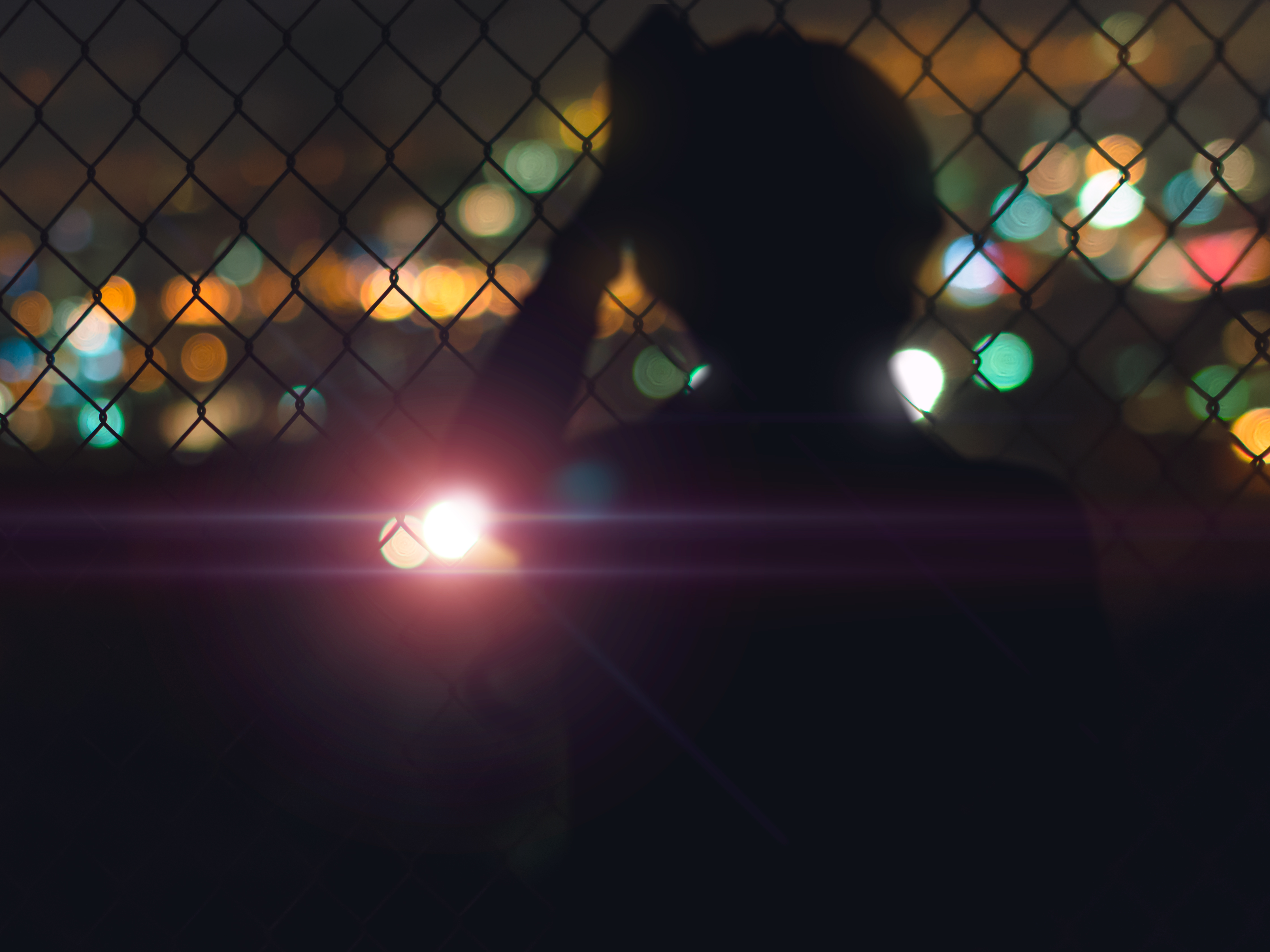 silhouette photo of a girl with bokeh effect at night